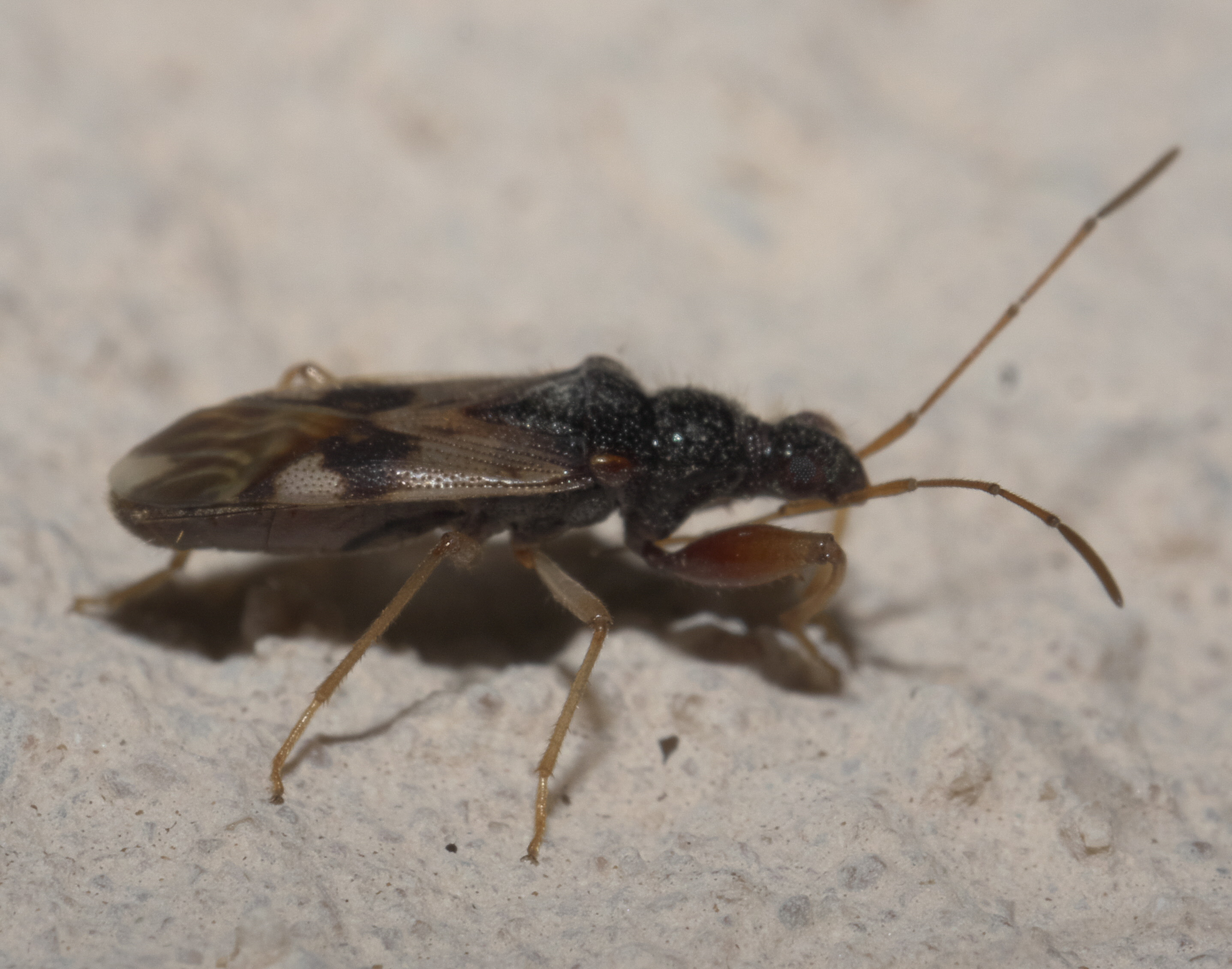 Pseudopamera nitidula, Family: Dirt-colored Seed Bugs, Size: 6.5 mm, ID Confidence: 98